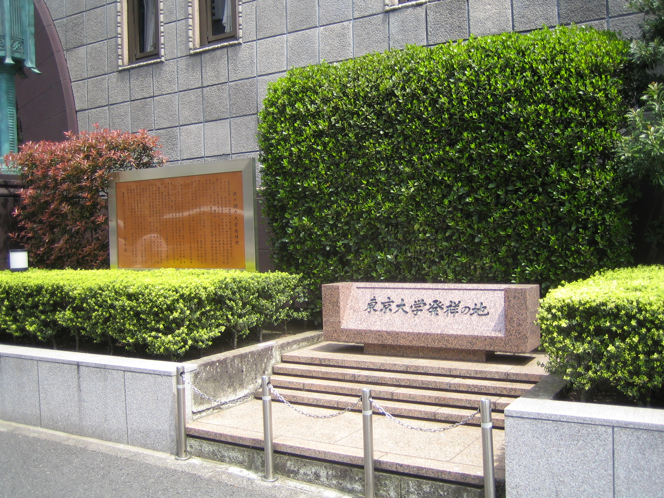 Birthplace of Tokyo University, at Gakushikaikan (学士会館)